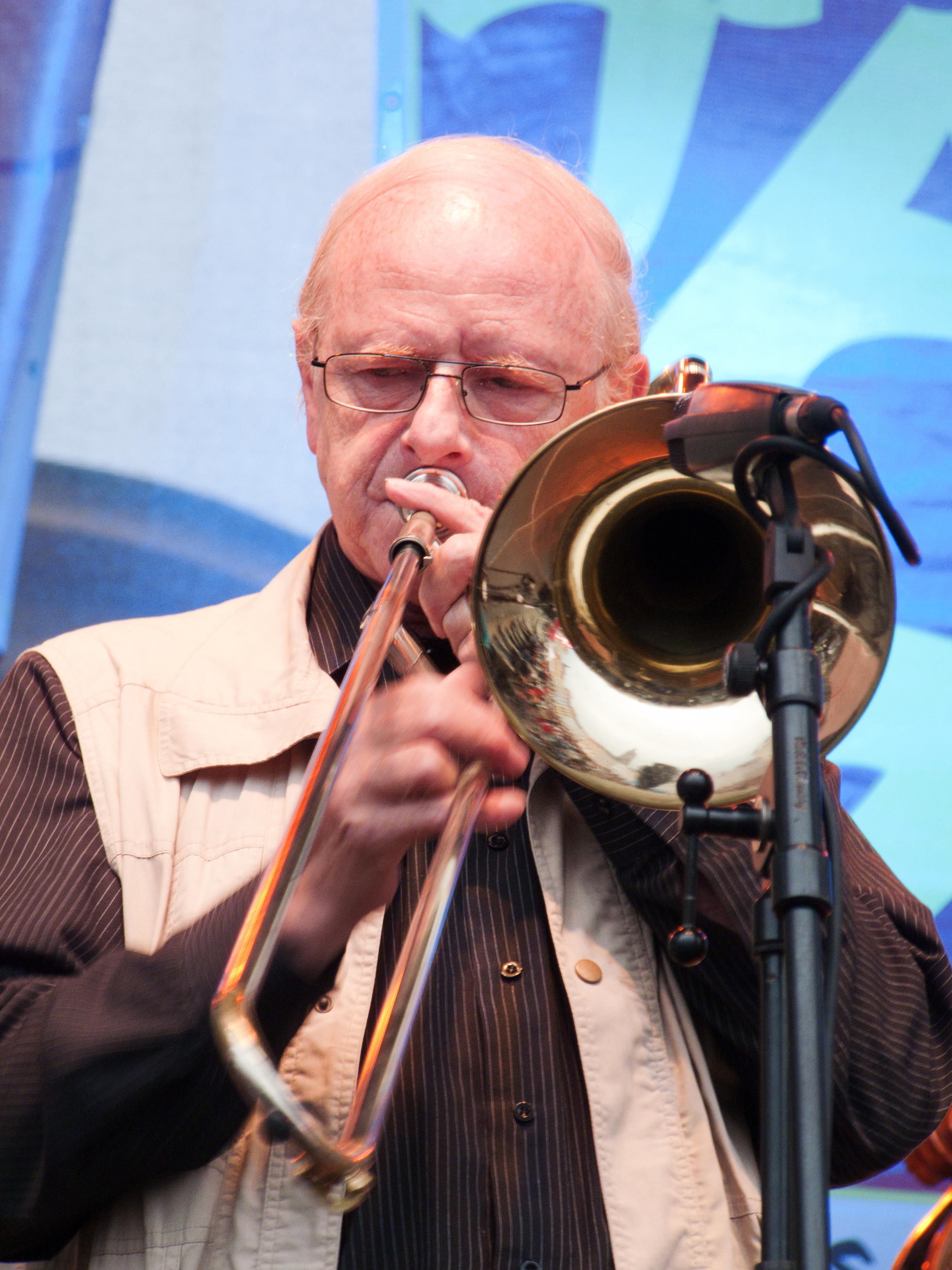 Svatopluk Košvanec playing at Bohemia Jazz Fest in České Budějovice, Czech Republic 2010